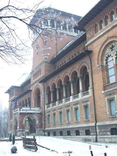 The facade of the Museum of the Romanian Peasant